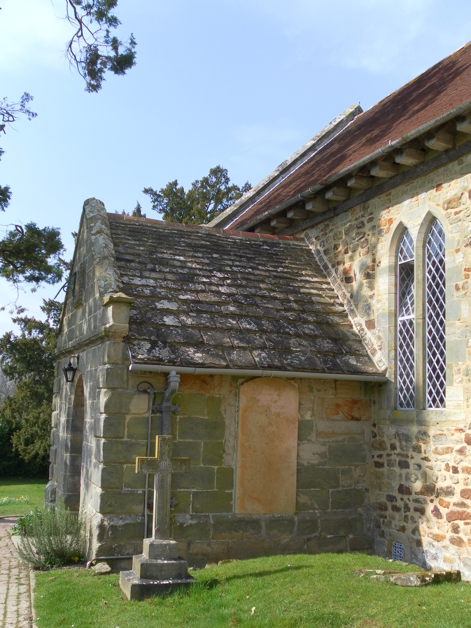 St Giles' Church, Church Lane, Horsted Keynes, district of Mid Sussex, West Sussex, England. An Anglican church built in the 12th–13th century to serve this village in a rural part of Mid Sussex. This view shows part of the south wall of the nave, including the south porch. Listed at Grade I by English Heritage (NHLE Code 1025684)